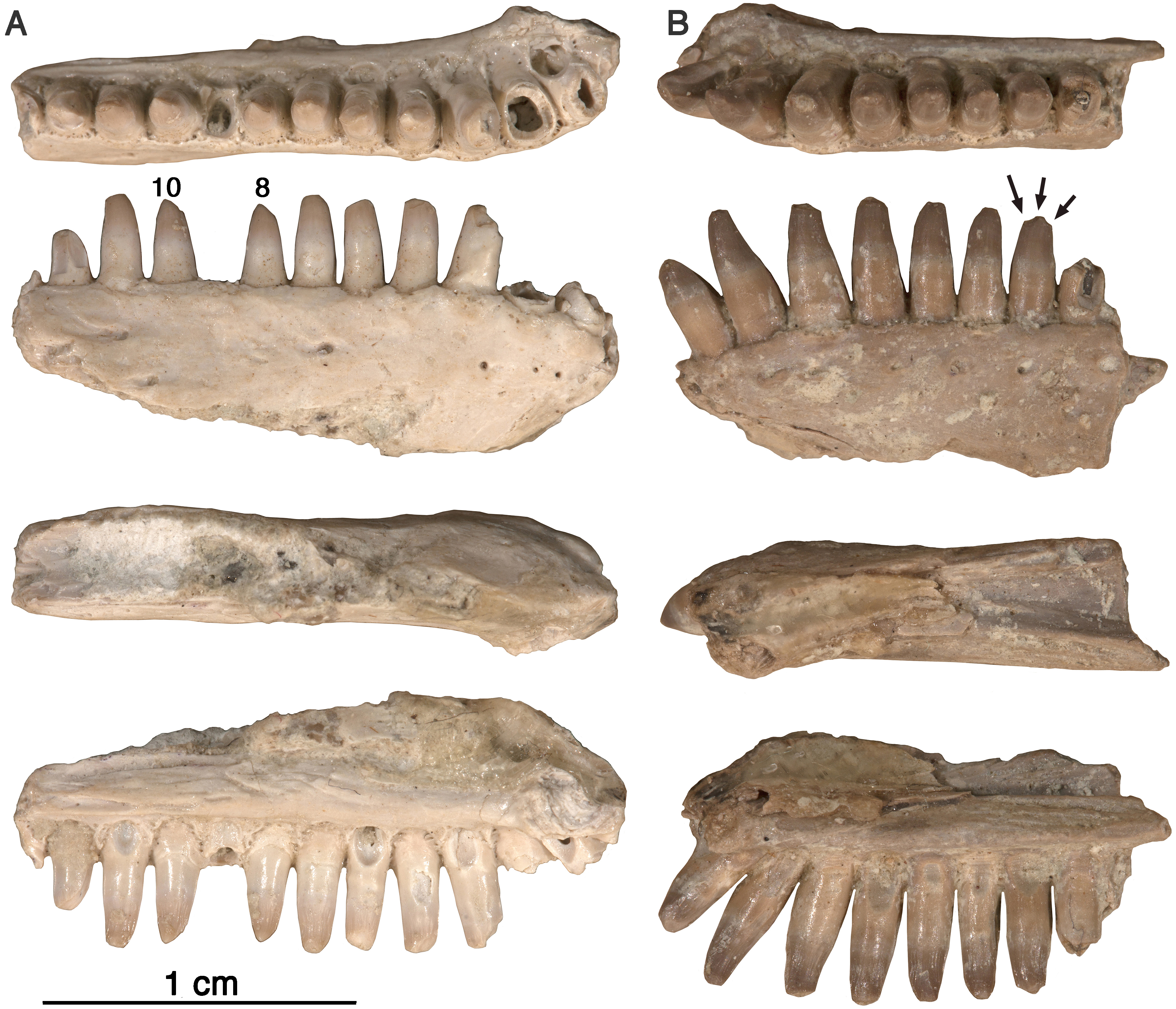 Arisierpeton simplex dentaries